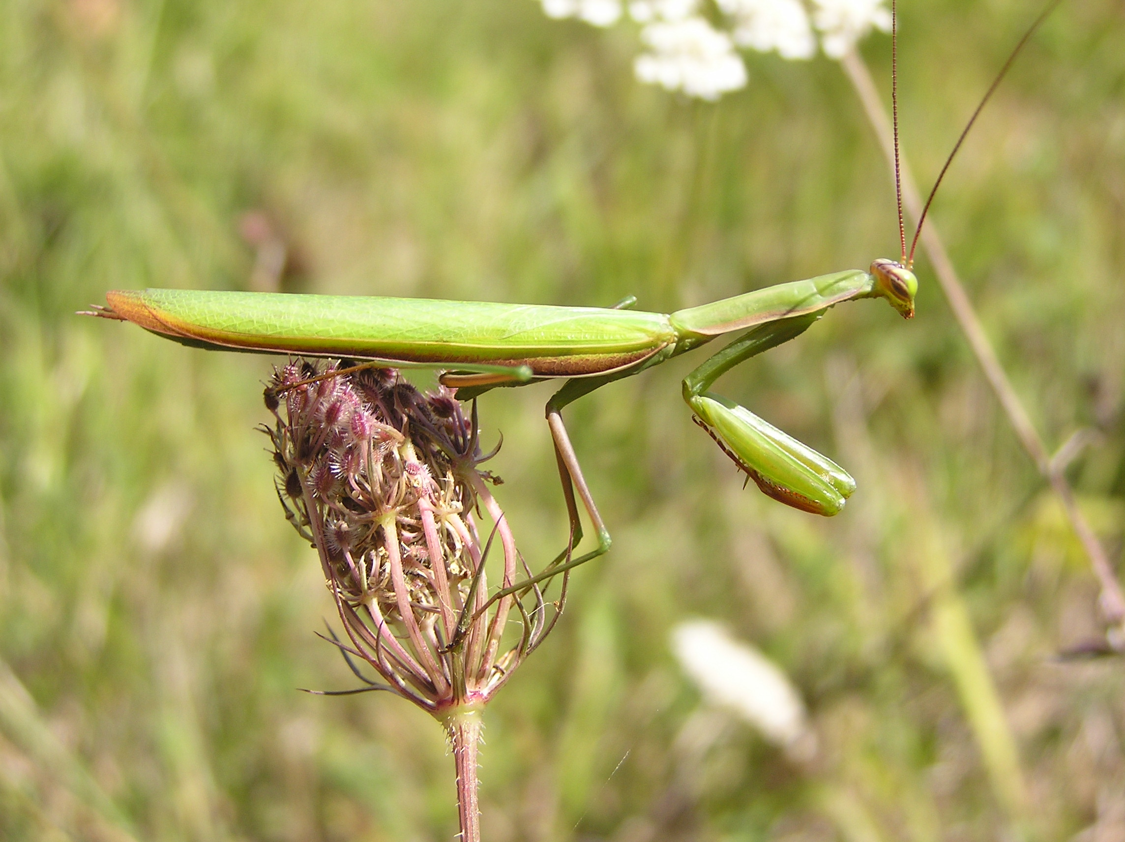 European mantis